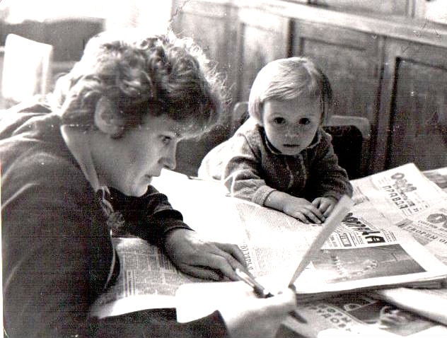 Bulusheva